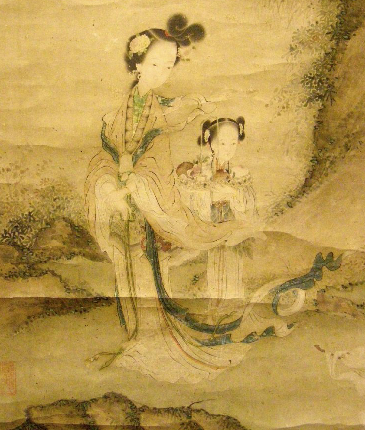 This file is a detail (showing Xi Wangmu) from a larger painting. The whole painting depicts the goddess Xi Wangmu who is brought peaches by a monkey.